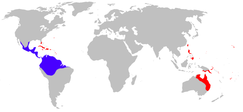 Distribution of Rhinella marinus, native distribution in blue, introduced in red.